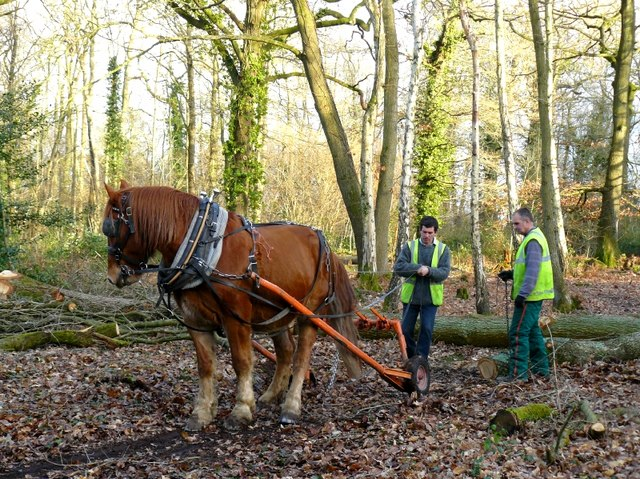 Valley Park - Logging the Old Fashion Way. Here is Titan working with a device called an Archer, which lifts the front end of the log lessening the drag.